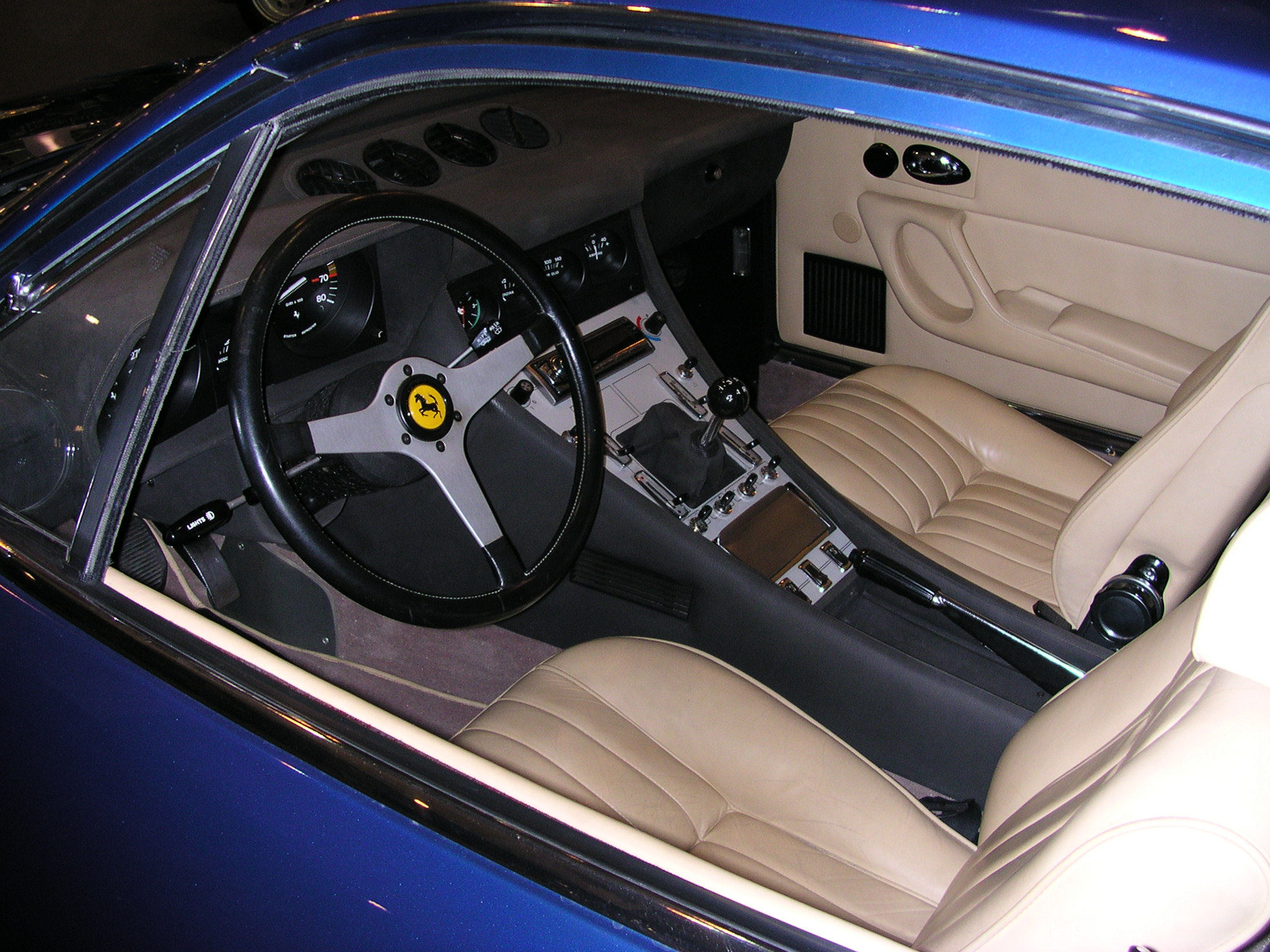 Techno-Classica 2007, Ferrari 365 GTC/4, 4390 cc, V12-engine, 235 kw (320 HP)